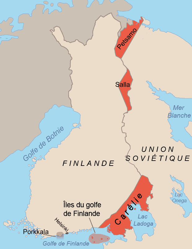 Map of Finnish areas ceded to the Soviet Union in 1944.